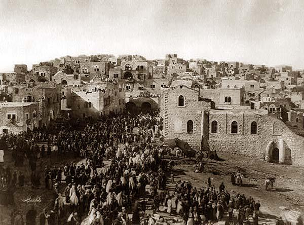 "(...) Entry of Pilgrims into Bethlehem at Christmas time. It was taken in 1890." (text from same source) Note: At the source of this picture, several pictures portray Christmas in Bethlehem in 1898 (not 1890). This picture seems to be the only exception. It could be that the indicated date is actually a typo...